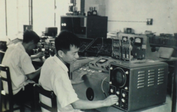 China's first Russian-Chinese translation electronic computer, developed by South China Institute of Technology (currently South China University of Technology) in September 1959.